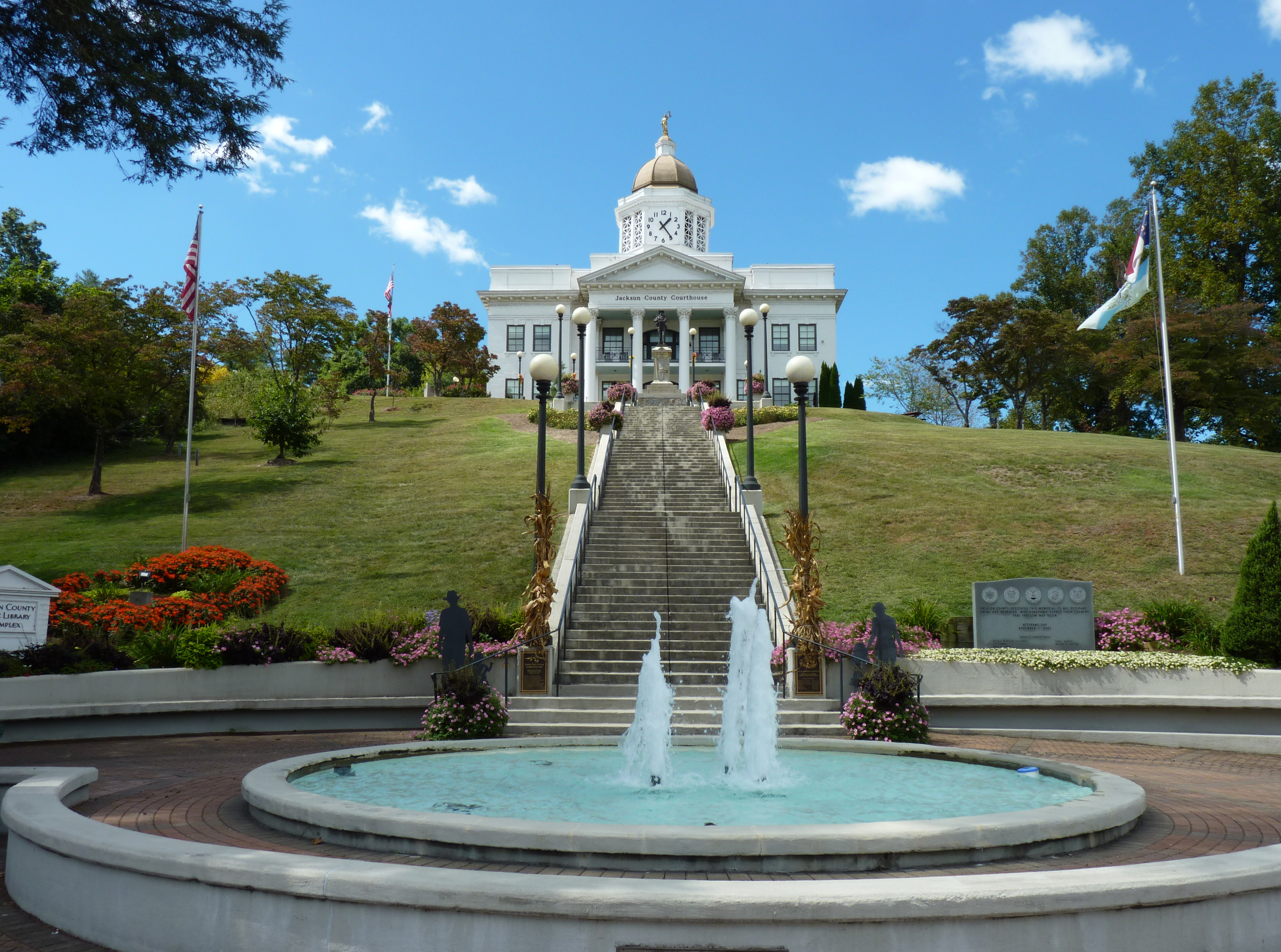 Old courthouse in Sylva, NC. Now a library.